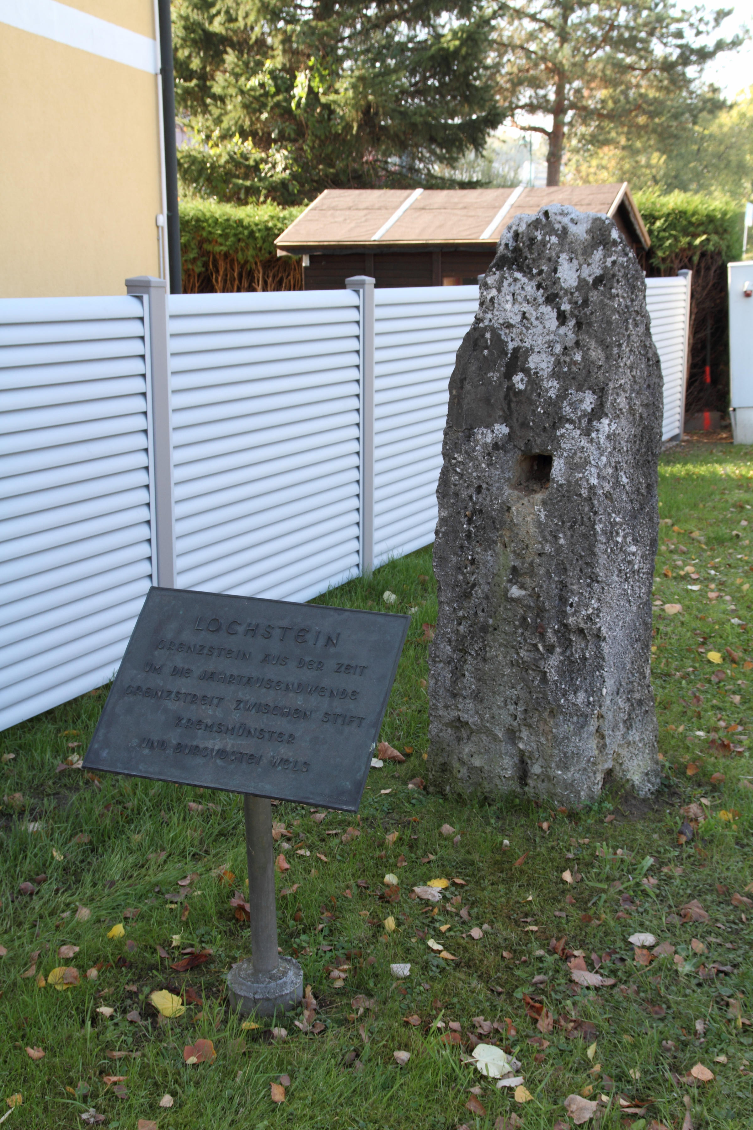 The "Lochstein" in Sattledt, a medieval border stone.